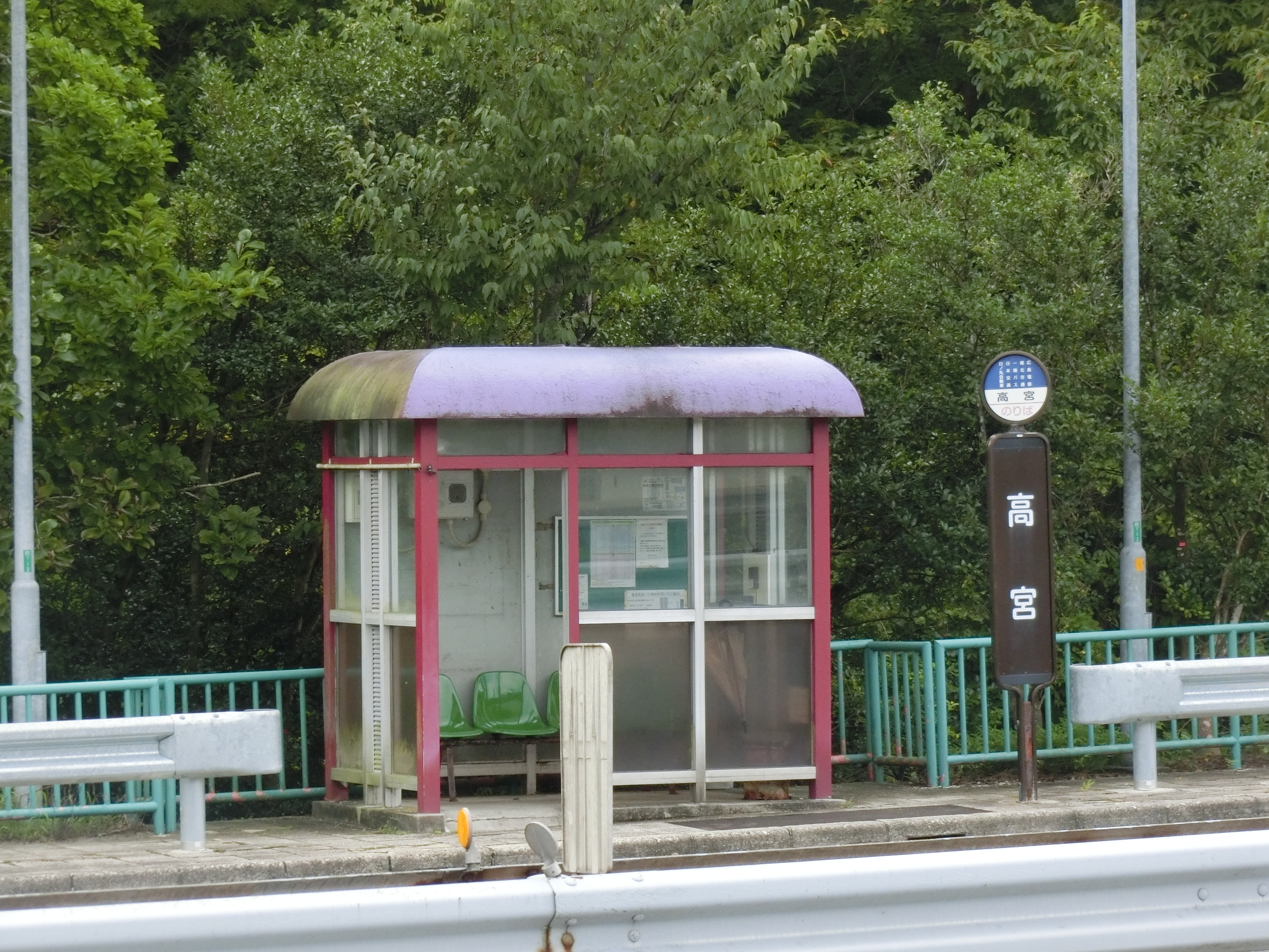 Downward bus stop of Takamiya Busstop on Chūgoku Expressway located in Aki-Takata.